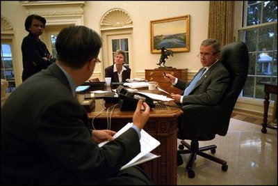 Before his address to Congress and the nation following the attacks of September 11, President George W. Bush meets with speechwriter Michael Gerson, National Security Advisor Condoleezza Rice and Counselor Karen Hughes in the Oval Office Sept. 20, 2001.